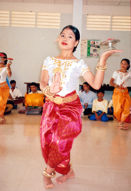 Cambodian traditional dancer wearing sampot